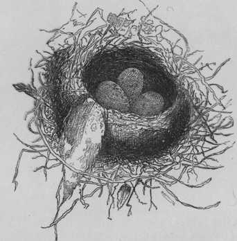 South-Island Robin (Petroica australis) nest.